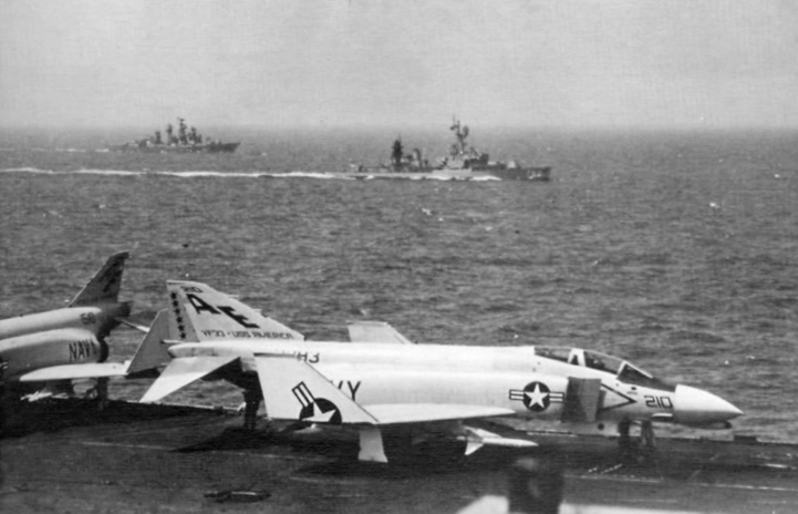 A U.S. Navy McDonnell F-4B Phantom II armed with an AIM-7 Sparrow missile from Fighter Squadron VF-33 Tarsiers on the catapult of the aircraft carrier USS America (CVA-66). VF-33 was assigned to Carrier Air Wing 6 aboard the America for a deployment to the Mediterranean Sea from 10 January to 20 September 1967.In the background are the U.S. Navy Gearing-class destroyer USS William C. Lawe (DD-763) and the Soviet Kashin-class guided missile destroyer 381.